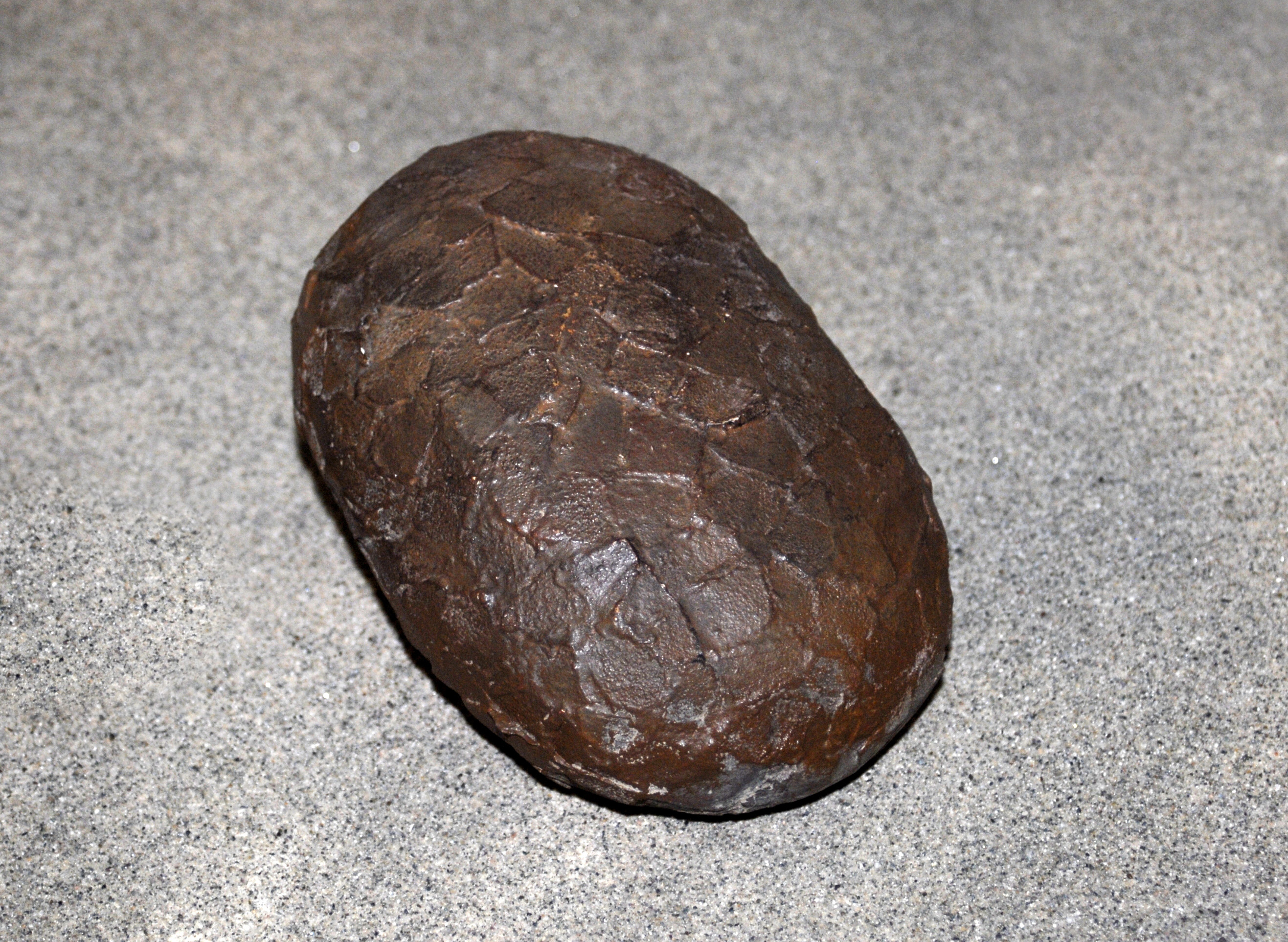 Kritosaurus egg (cast), on display at the Civico Museo di Storia Naturale di Genova